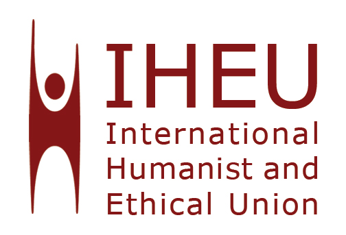 Logo of the International Humanist and Ethical Union (IHEU).